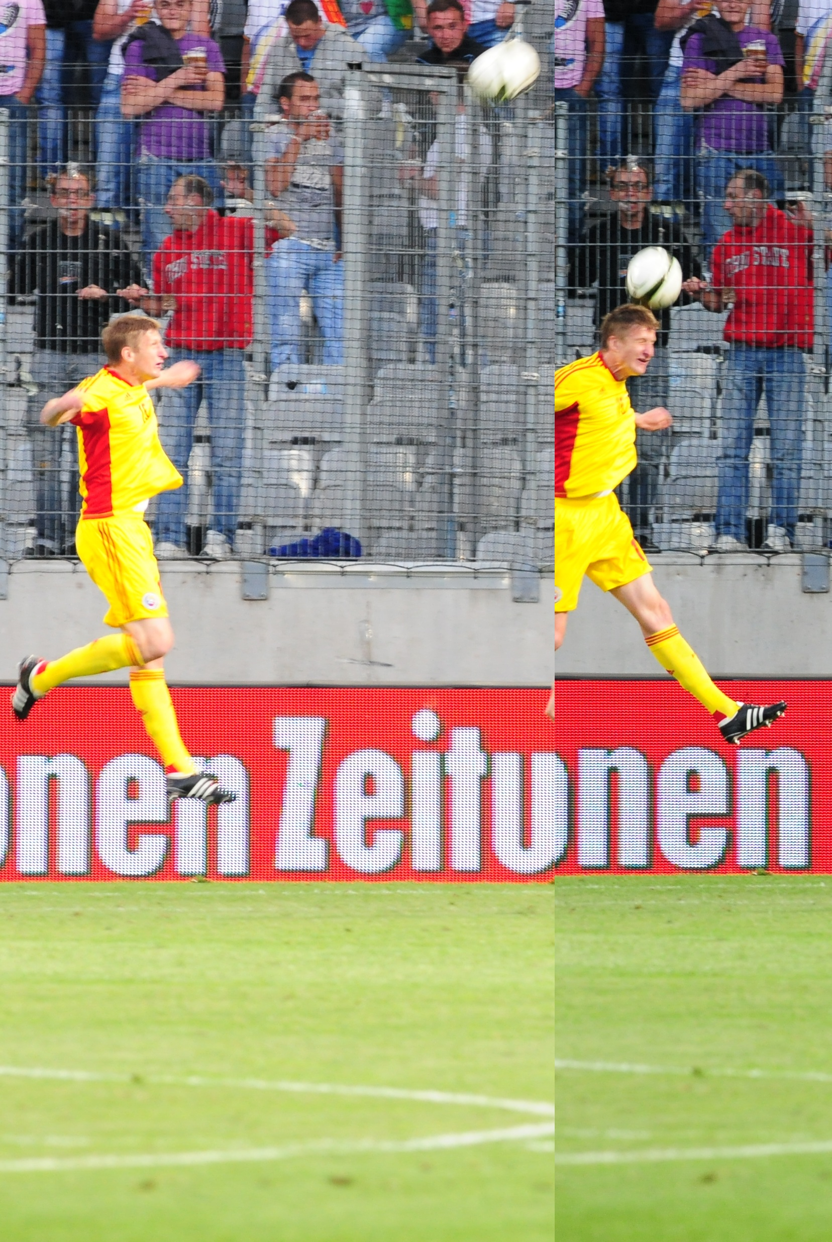 Exhibition game Austria vs. Romania at 5st. June 2012